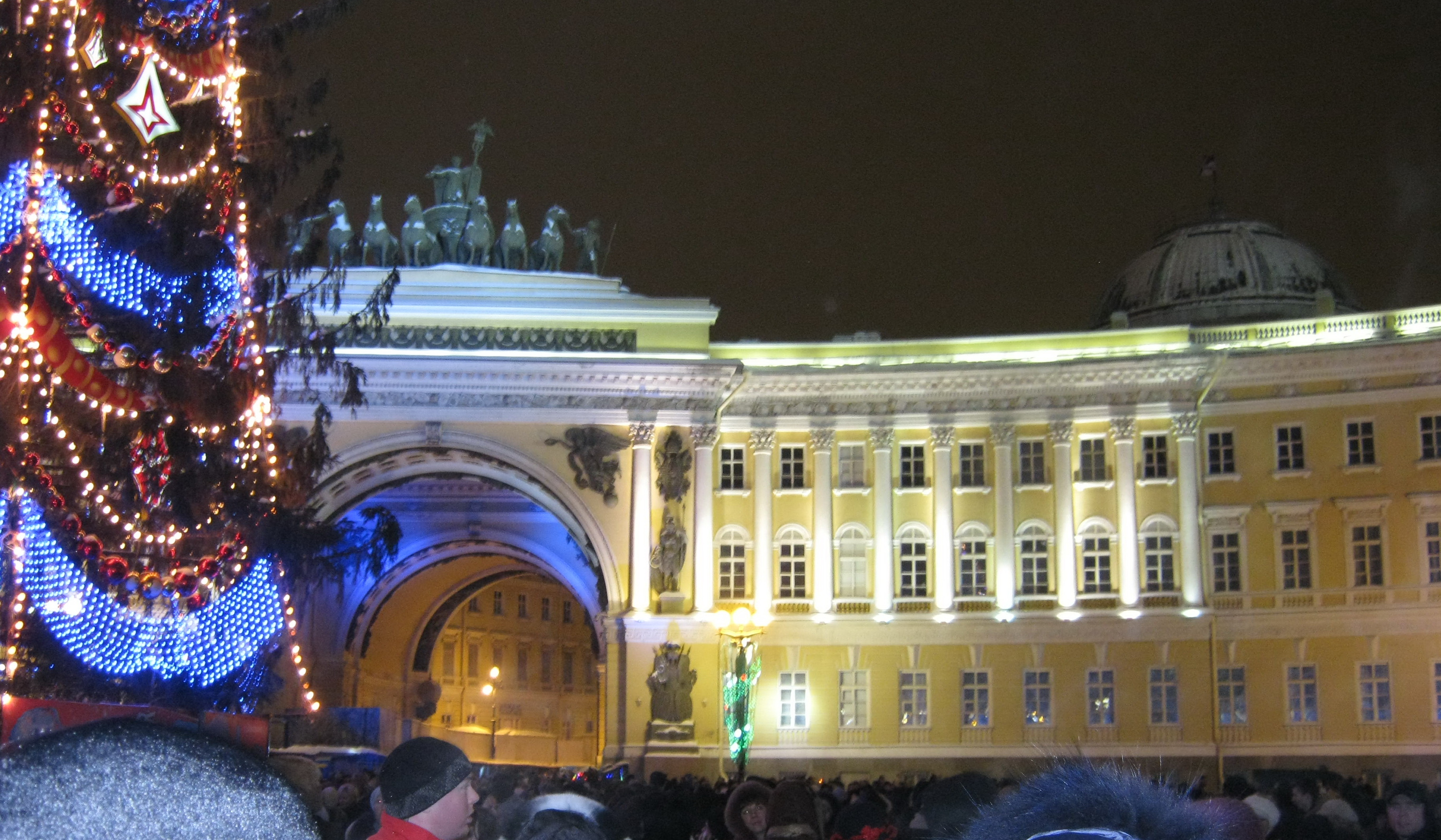 Saint Petersburg (Russia), Palace Square in New Year